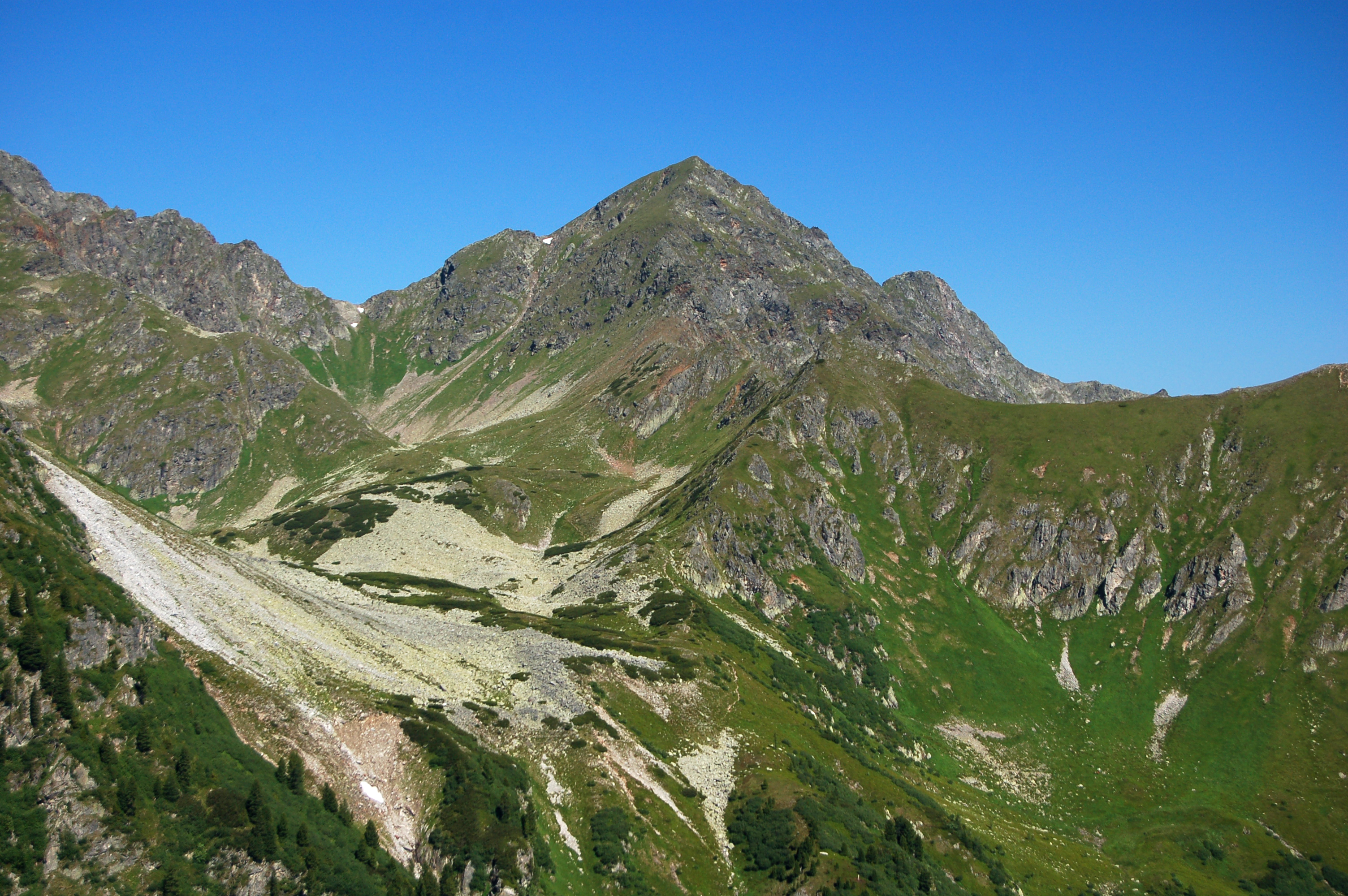 Dreistecken (2382m), Rottenmanner Tauern, Styria.